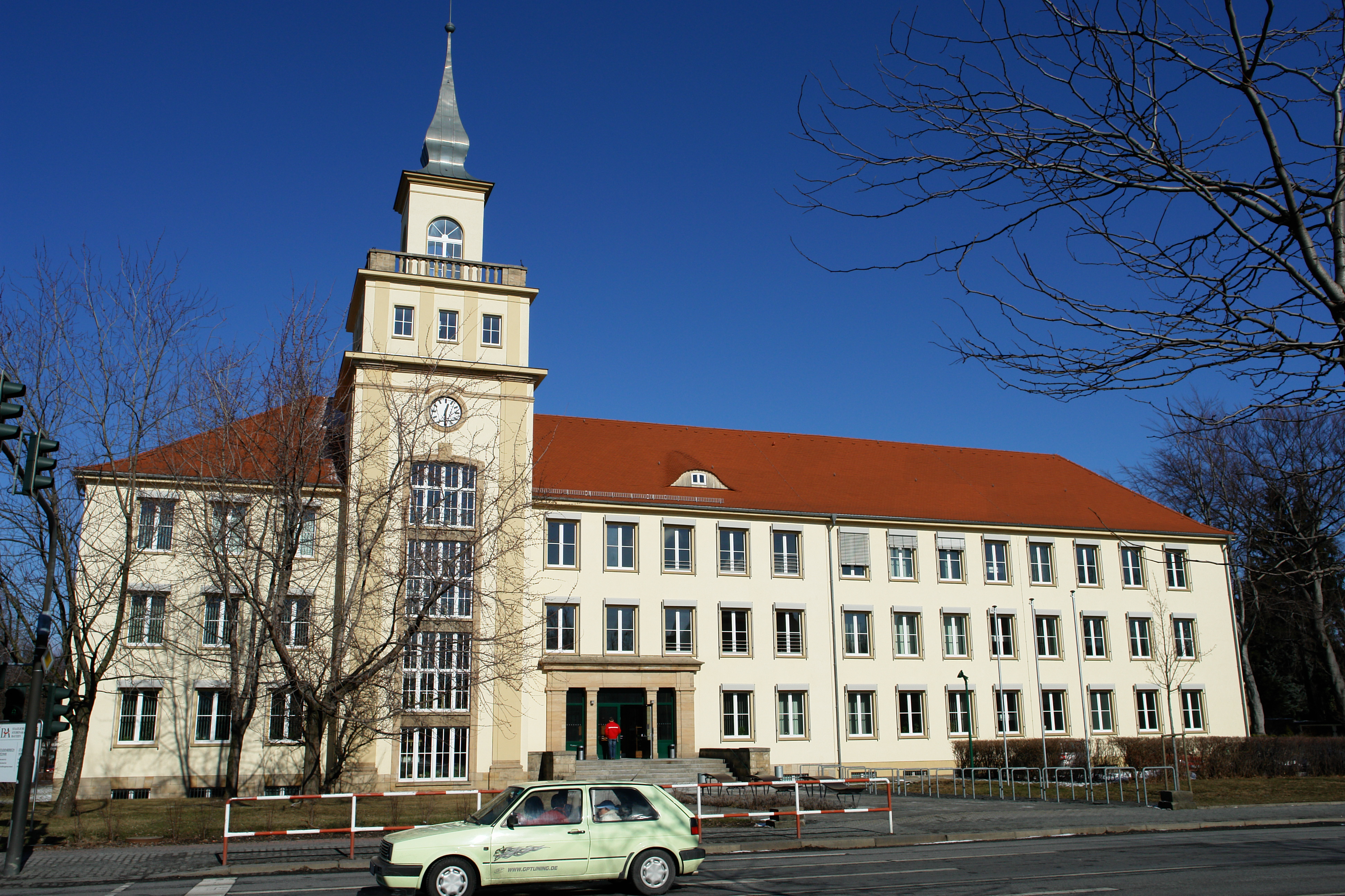 university of cooperative education in Bautzen.